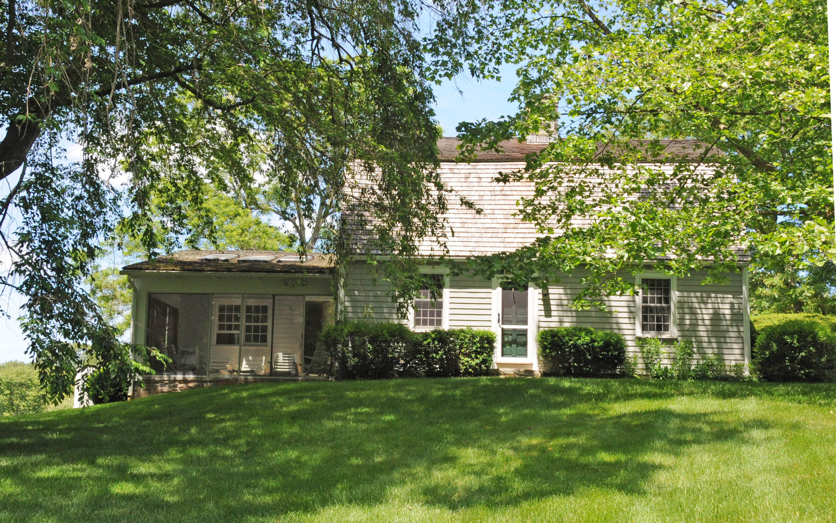 BUILT EITHER IN 1785 OR 1815 AND EXTERNSIVELY ALTERED. IT IS ASSOCIATED WITH OLIVER HAZARD PERRY OF LAKE ERIE FAME AND ADMIRAL MATTHEW C. PERRY WHO OPENED JAPAN IN 1854. OLIVER PERRY MAY HAVE BEEN BORN ON THE PROPERTY WHICH BELONGED TO HIS GRANDFATHER AND MAY HAVE BUILT THE NOW-STANDING HOUSE AFTER ACQUIRING THE PROPERTY IN 1814